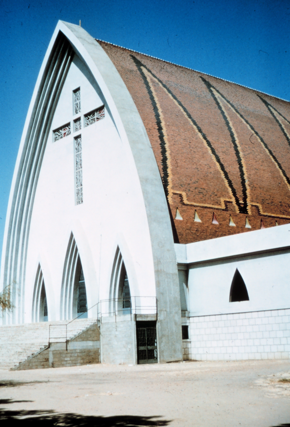 Notre Dame de N'Djaména, catholic cathedral in N'Djaména (N'Djamena, formerly Fort Lamy), Chad, Central Africa.